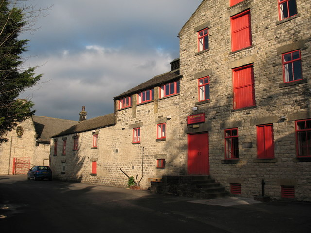 Theakston's Brewery, Masham Buildings on the west side of the brewery yard in the centre of Masham.